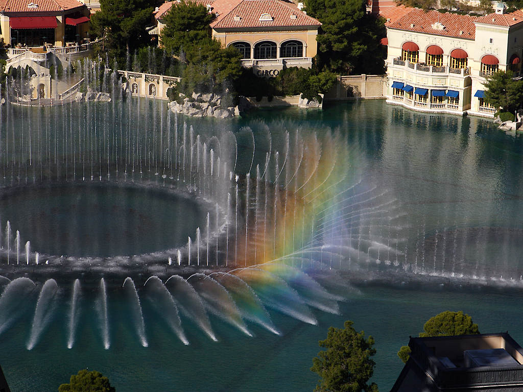 Rainbow in the Fountains of the Bellagio Hotel and Casino in Las Vegas, Nevada